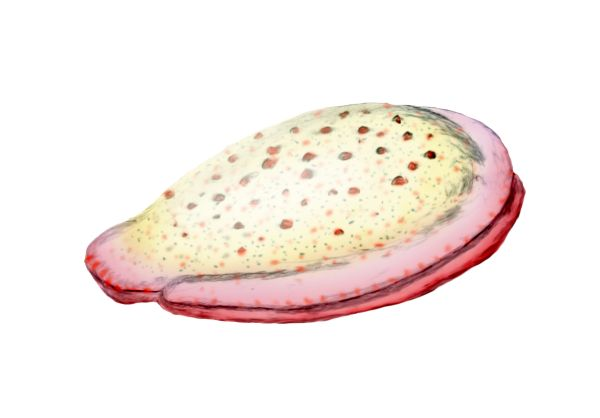 Kimberella quadrata, a soft-bodied bilaterian animal from the Ediacaran biota of South Australia and Russia. Kimberella grew up to around 15 cm (6 in) long, though much smaller individuals have also been found, only a few millimeters in length. Kimberella has been found associated with scratch-mark trace fossils resembling the scratches from a mollusc's toothed radula, and thus Kimberella has been proposed as a possible proto-mollusc or mollusc relative, but this is as yet uncertain.